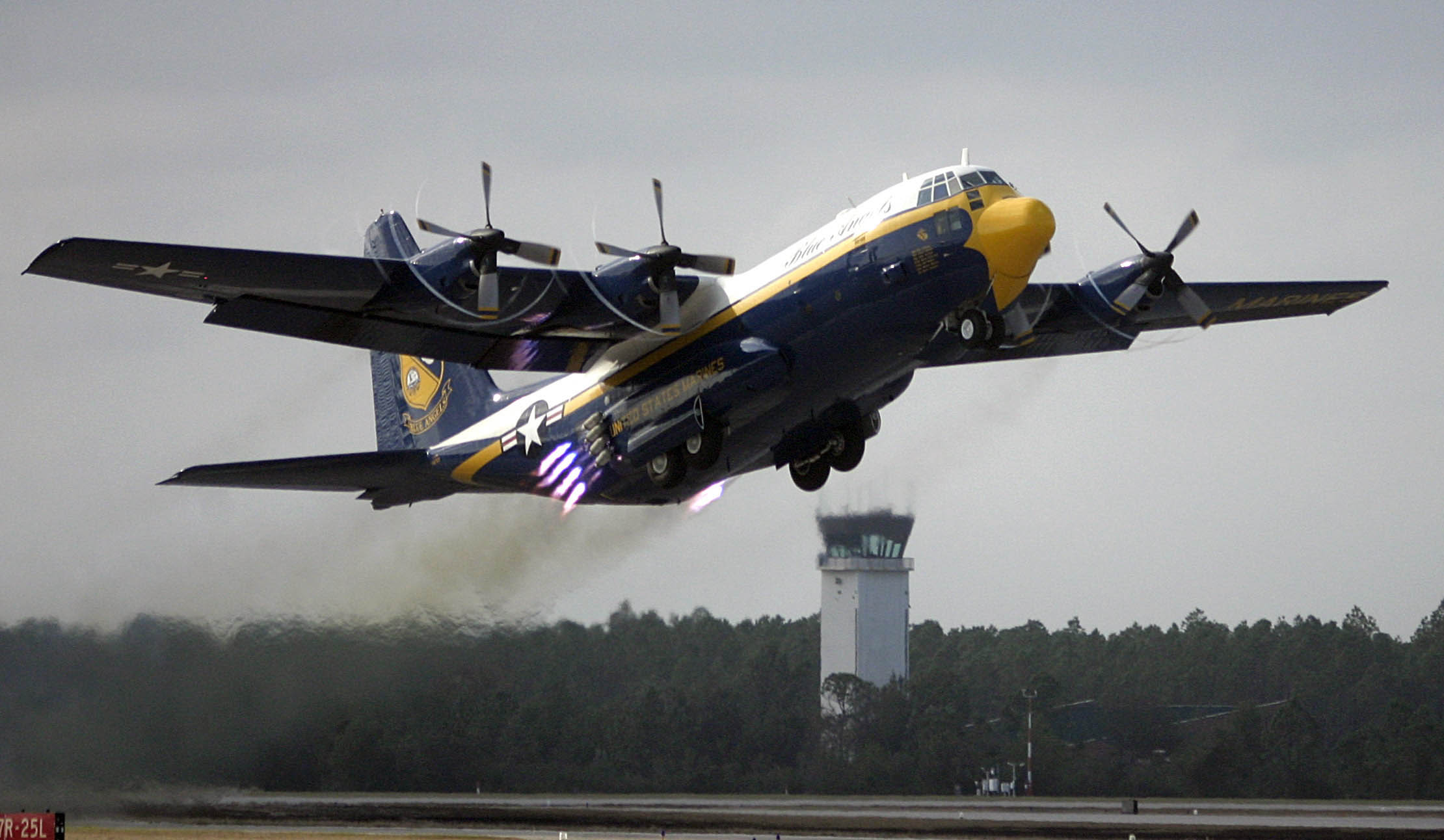 The U.S. Marine Corps C-130 Hercules, "Fat Albert," assigned to the U.S. Navy “Blue Angels” flight demonstration team, uses Jet Assisted Take Off (JATO) bottles during the 2005 Blue Angel Homecoming show. Fat Albert kicks-off each show with an assisted takeoff, demonstrating the C-130’s ability to get airborne in minimal time and distance, simulating conditions in hostile environments and on short, unprepared runways. The homecoming air show signifies the final performance of the season for the “Blue Angels”, which is held at their homebase of Naval Air Station Pensacola, Fla.